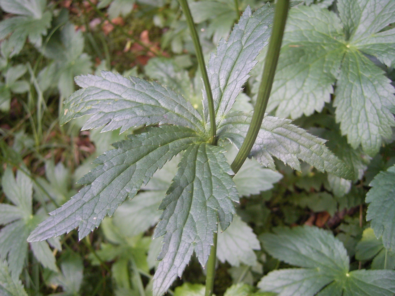 This pic shows the leaves of Astrantia Major.